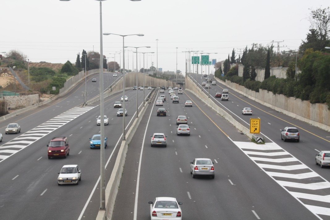 Hakfar Hayarok Interchange